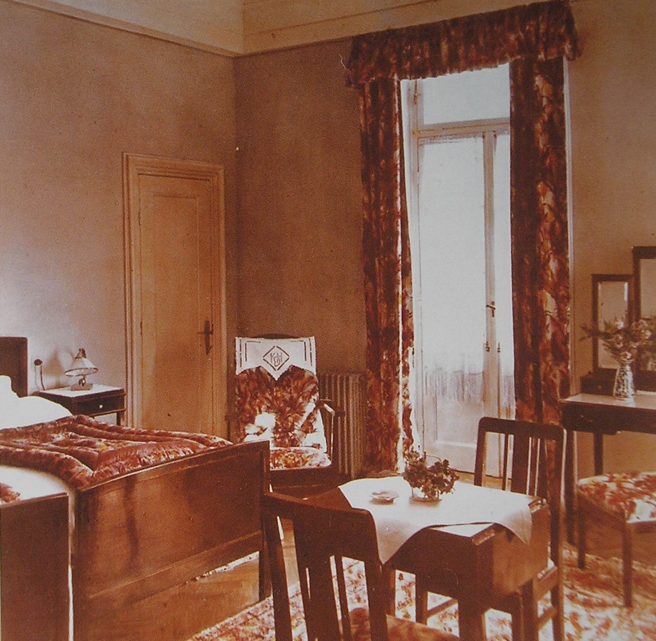 A room in the King David - 1930's